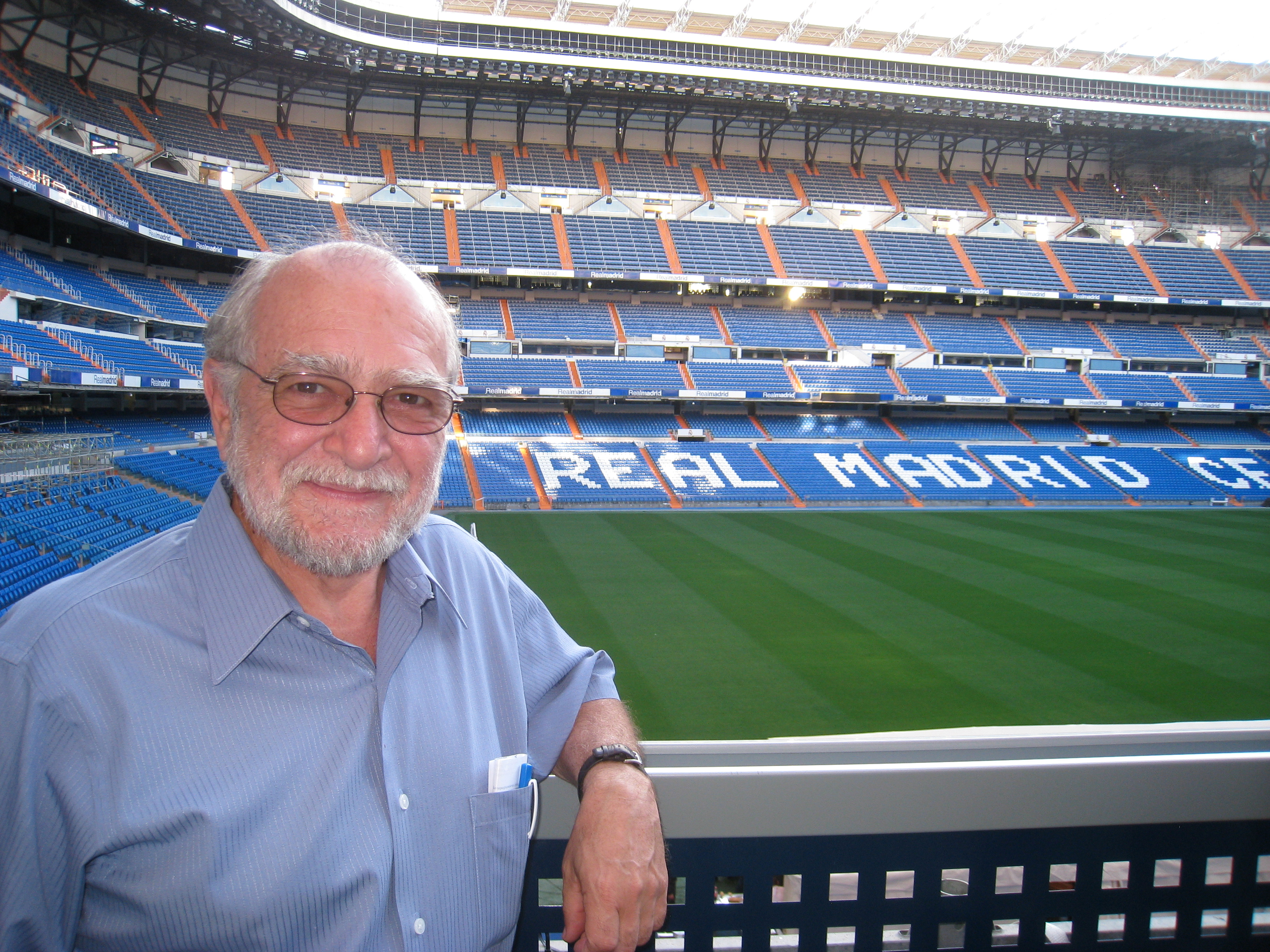 Nicholas F. Maxemchuk, Madrid, Spain, 2009.